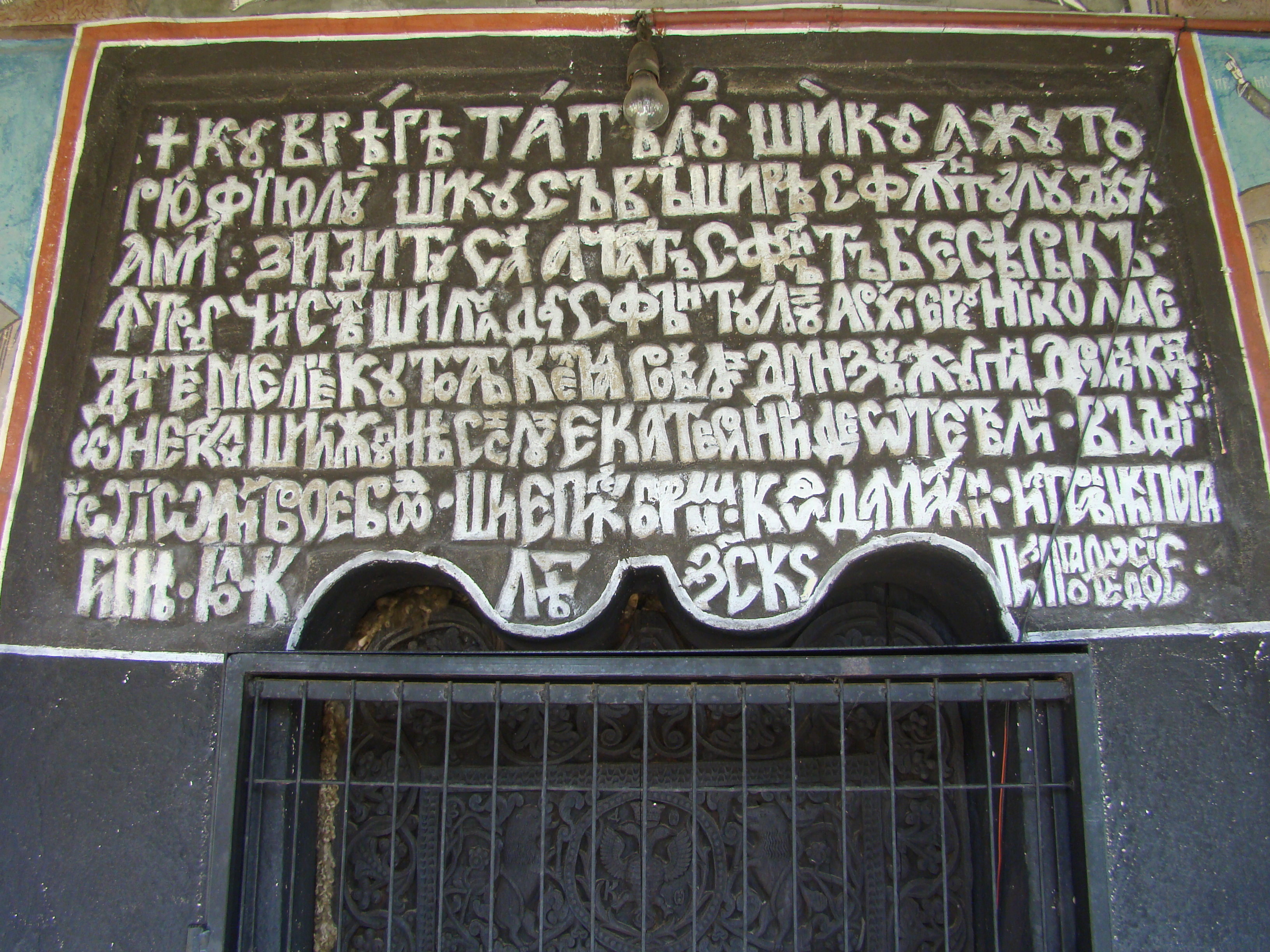 Saint Nicholas church in Olănești, Vâlcea county, Romania